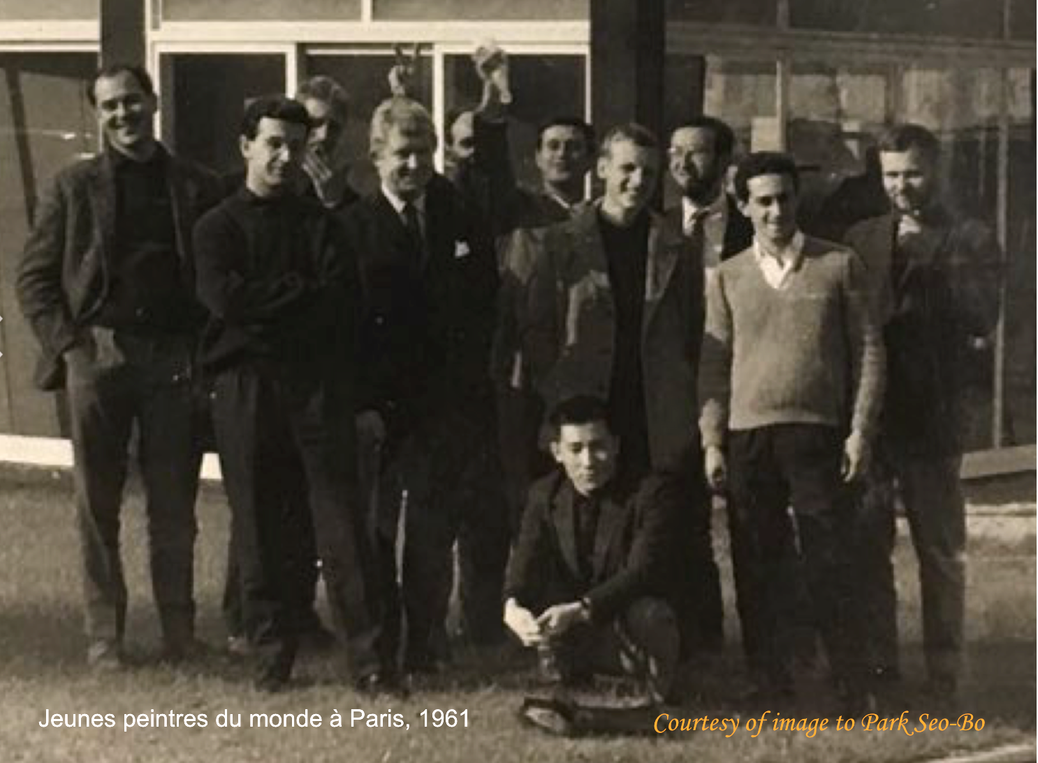 This picture shows Adolf Frohner (the left end), Brett Whiteley(the 4th from the left), Nunzio Solendo(the 6th from the left), Flavio Paolucci(the 4th from the right end), Antônio Grosso(the 2nd from the right) and Park Seo-Bo(the sitting person). They are part of the participant artists of "Jeunes peintres du monde à Paris" in 1961. It is uploaded by the daughter of Park Seo-Bo with his consent.